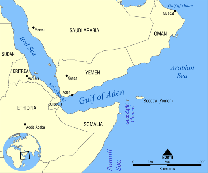 Somali Sea map